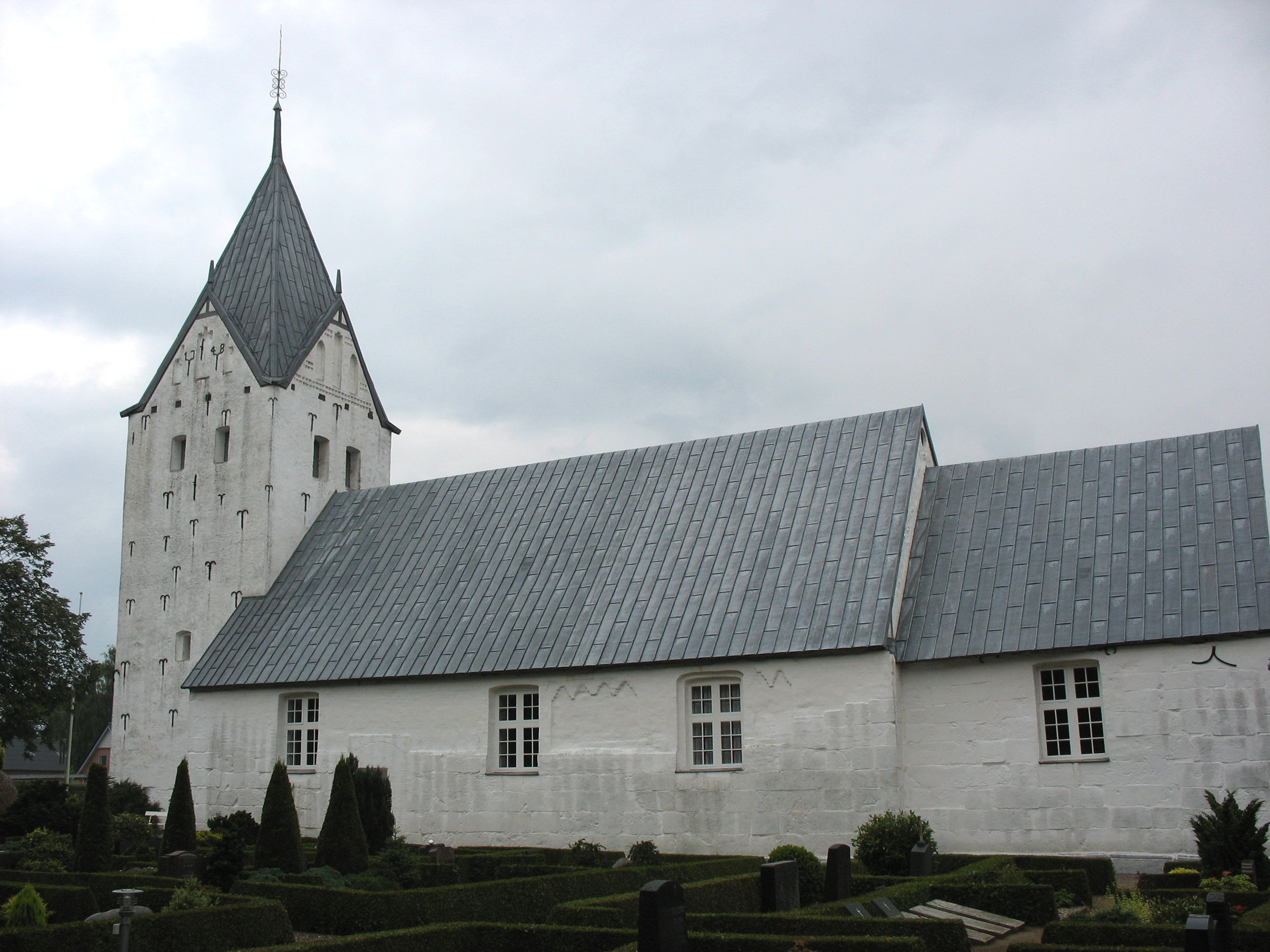 Arrild Church.